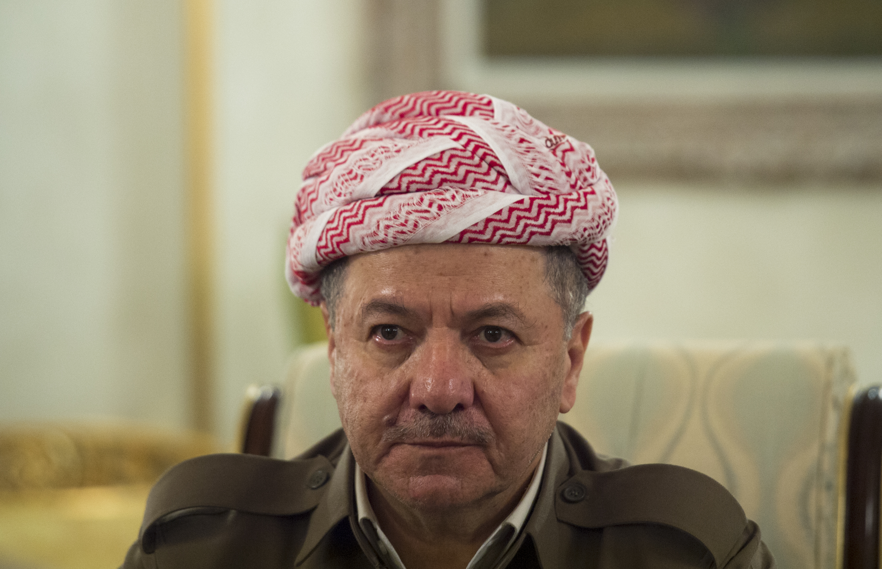 President of Iraqi Kurdistan Masoud Barzani